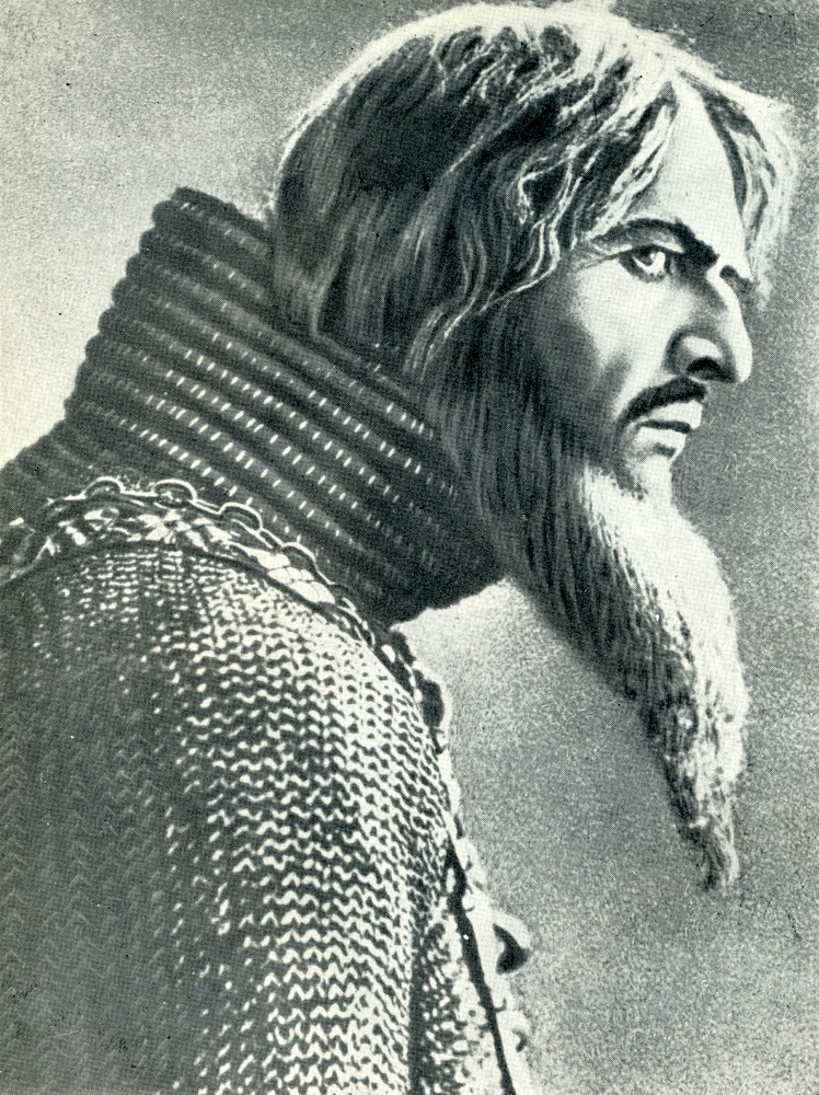 Russian bass, Feodor Chaliapin (1873 - 1938)